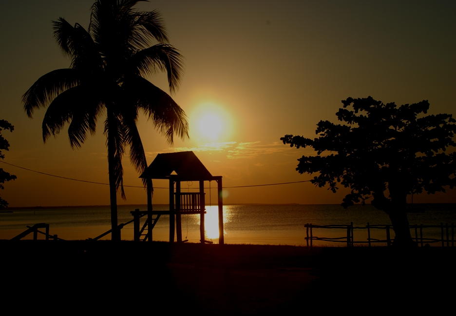 Shore at Sarteneja , in the Corozal District, northeastern Belize.